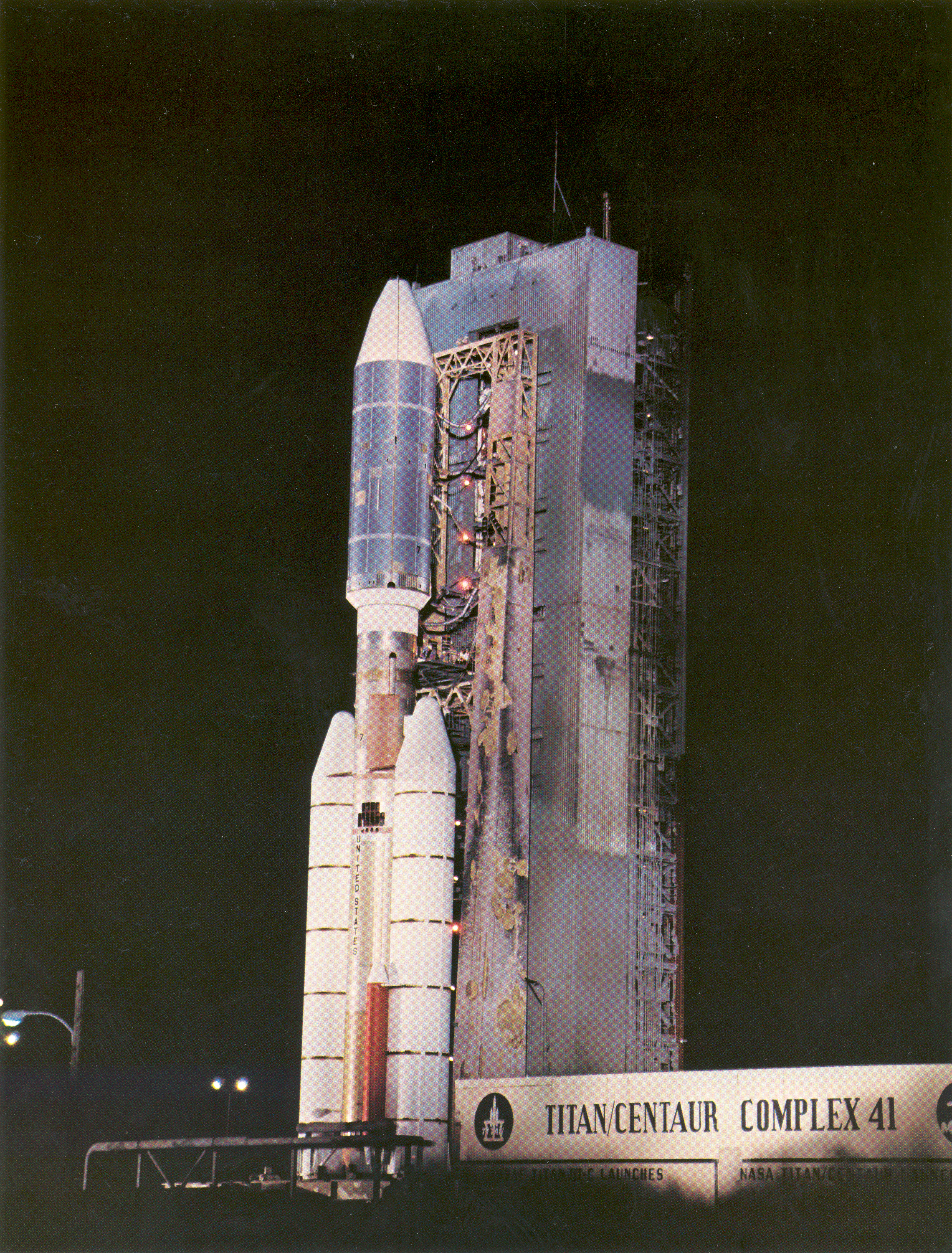 Voyager 2 was launched August 20, 1977, sixteen days beforeVoyager 1 aboard a Titan-Centaur rocket. Their different flight trajectories caused Voyager 2 to arrive at Jupiter four months later than Voyager 1, thus explaining their numbering. The initial mission plan for Voyager 2 specified visits only to Jupiter and Saturn. The plan was augmented in 1981 to include avisit to Uranus, and again in 1985 to include a flyby of Neptune. After completing the tour of the outer planets in 1989, the Voyager spacecraft began exploring interstellar space. The Voyager mission has been managed by NASA's Office of Space Science and the Jet Propulsion Laboratory.